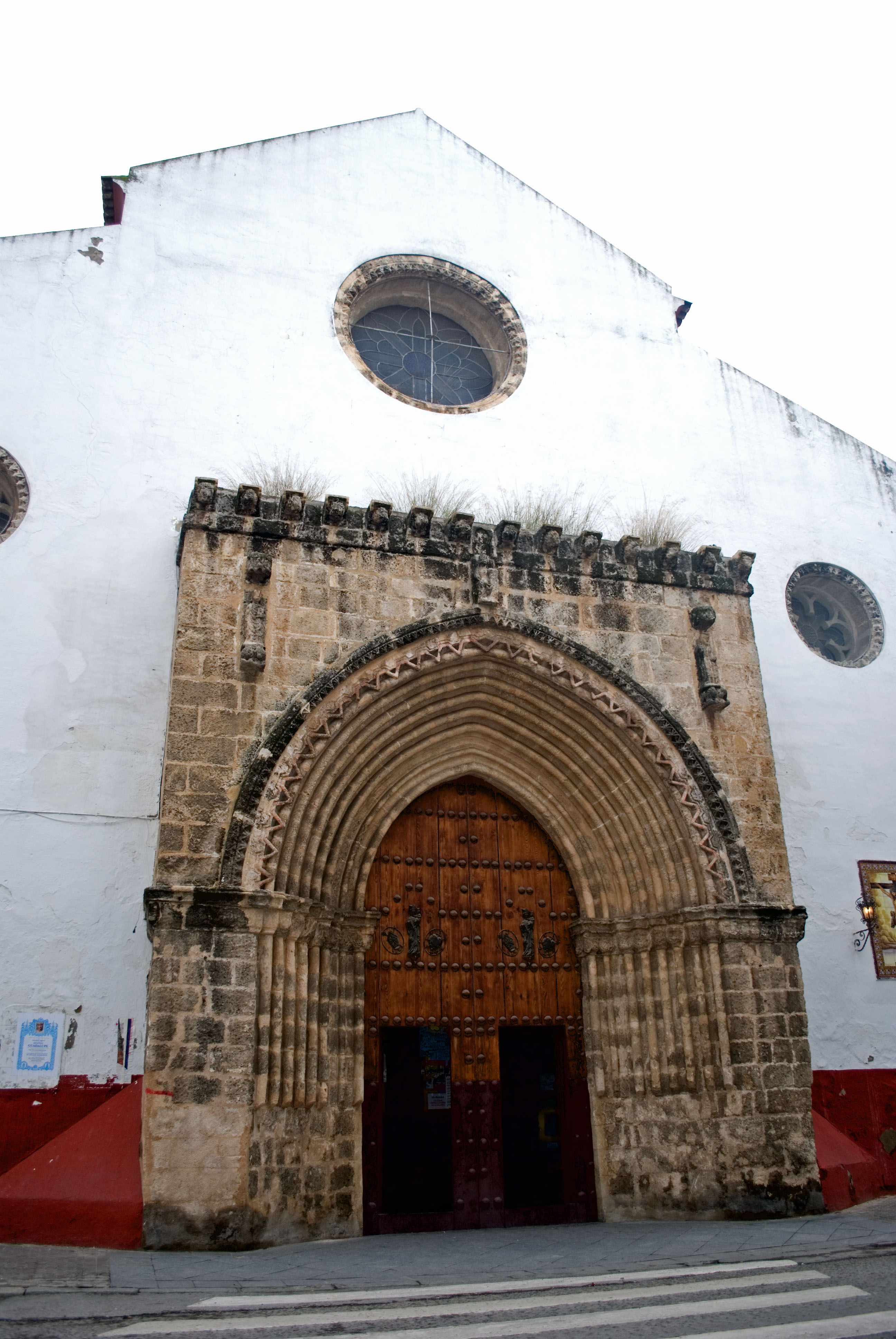 Church of San Julian, Seville